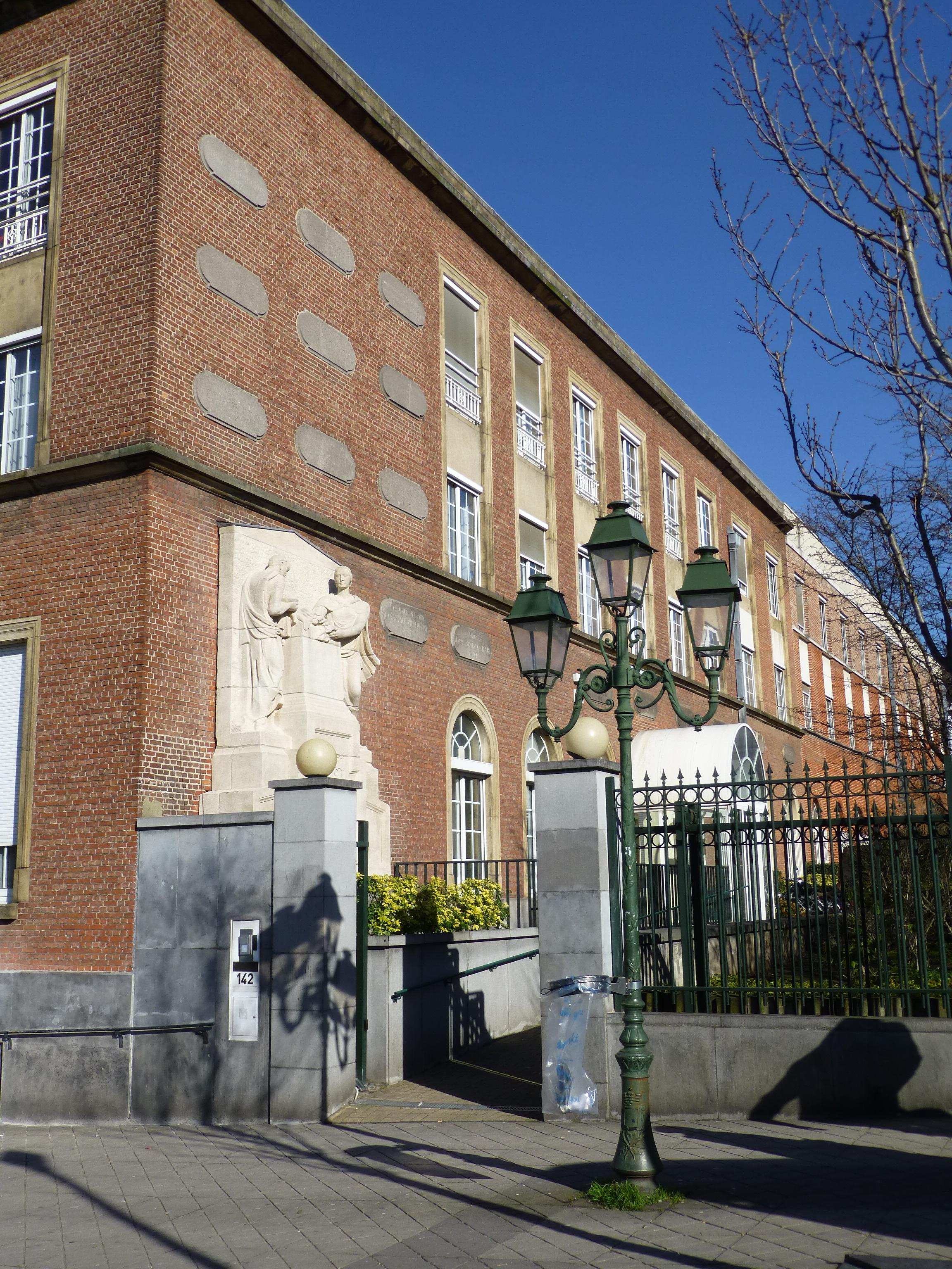 Philanthropy society founded in 1828, near Porte de Hal at Brussels, now a Residence for seniors.